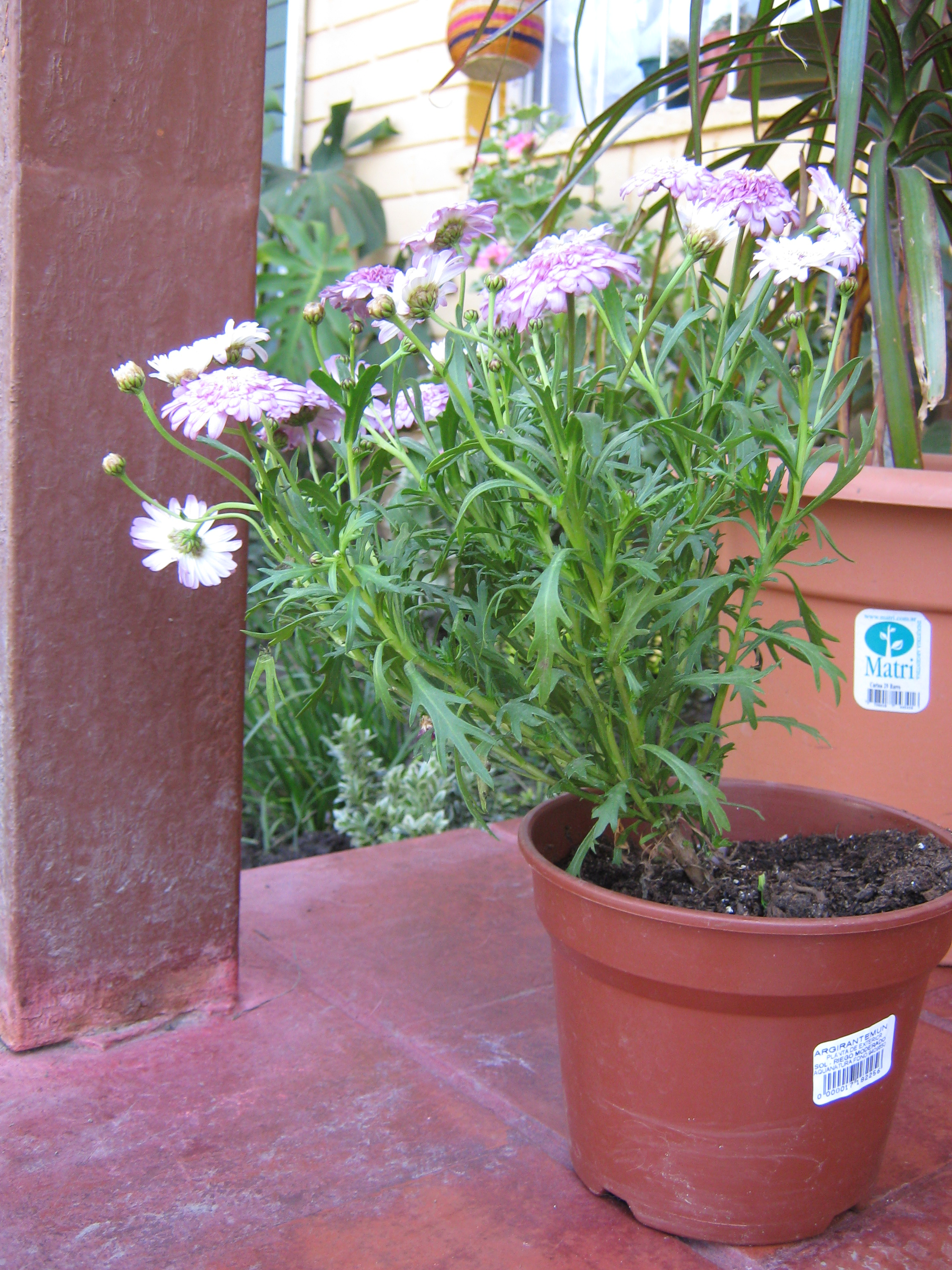 Argyranthemum frutescens as pot plant